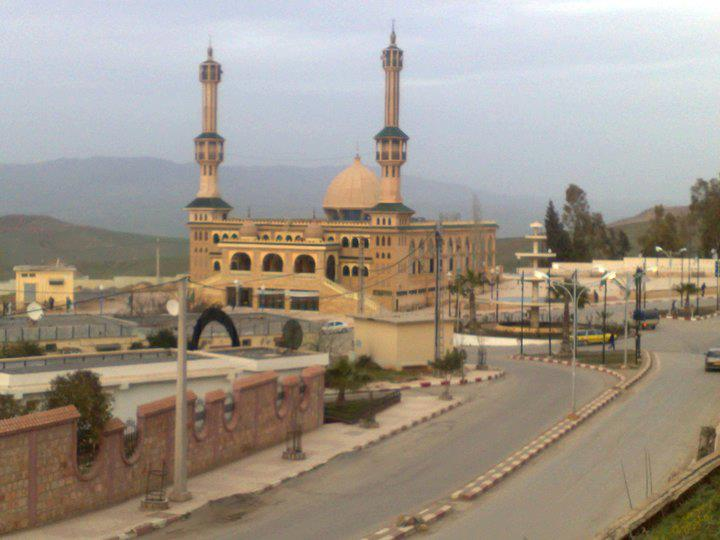 Mila Algeria in 2012